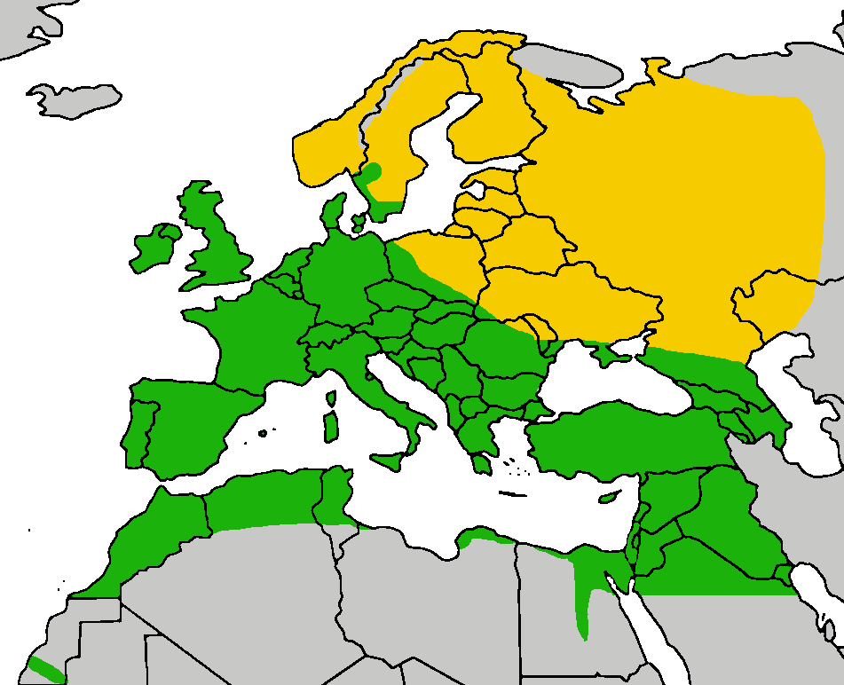 Falco tinnunculus; range map; yellow=summer; green=yearround